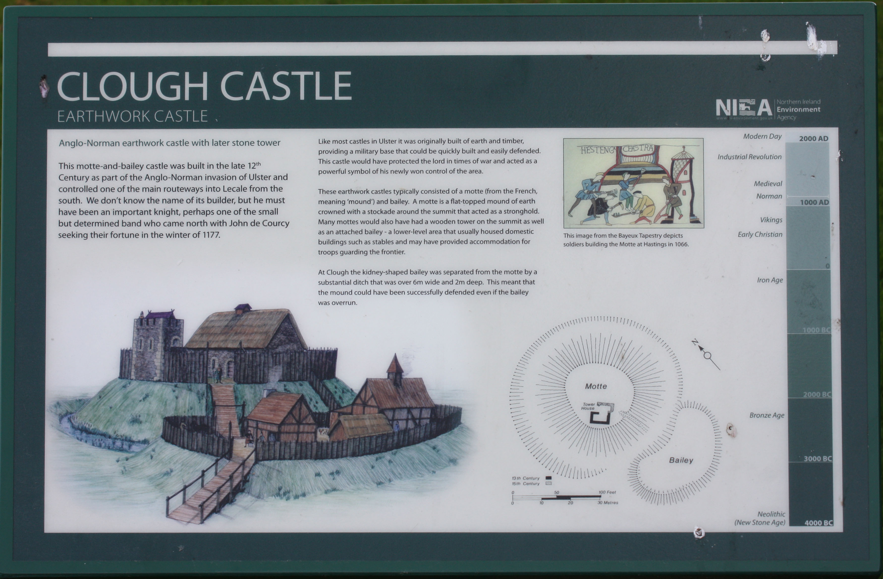 Information board at Clough Castle, Main Street, Clough, County Down, Northern Ireland, October 2009